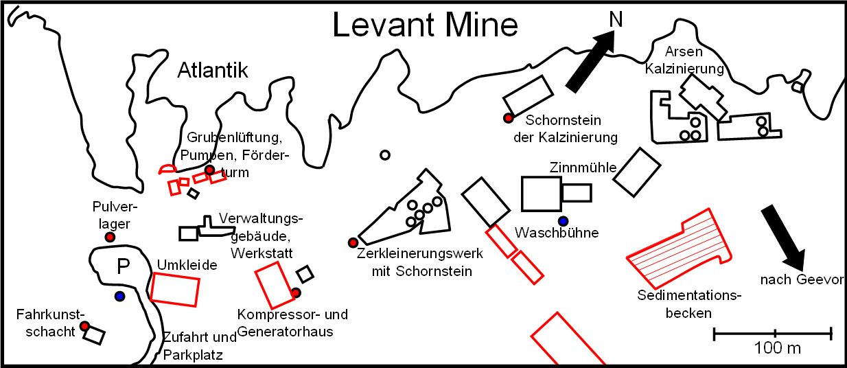 Overview scetch about the buildings and ruins of the Levant Mine, an old tin and copper mine close to St Just in Cornwall, England. Basis Google Earth, names and some details from